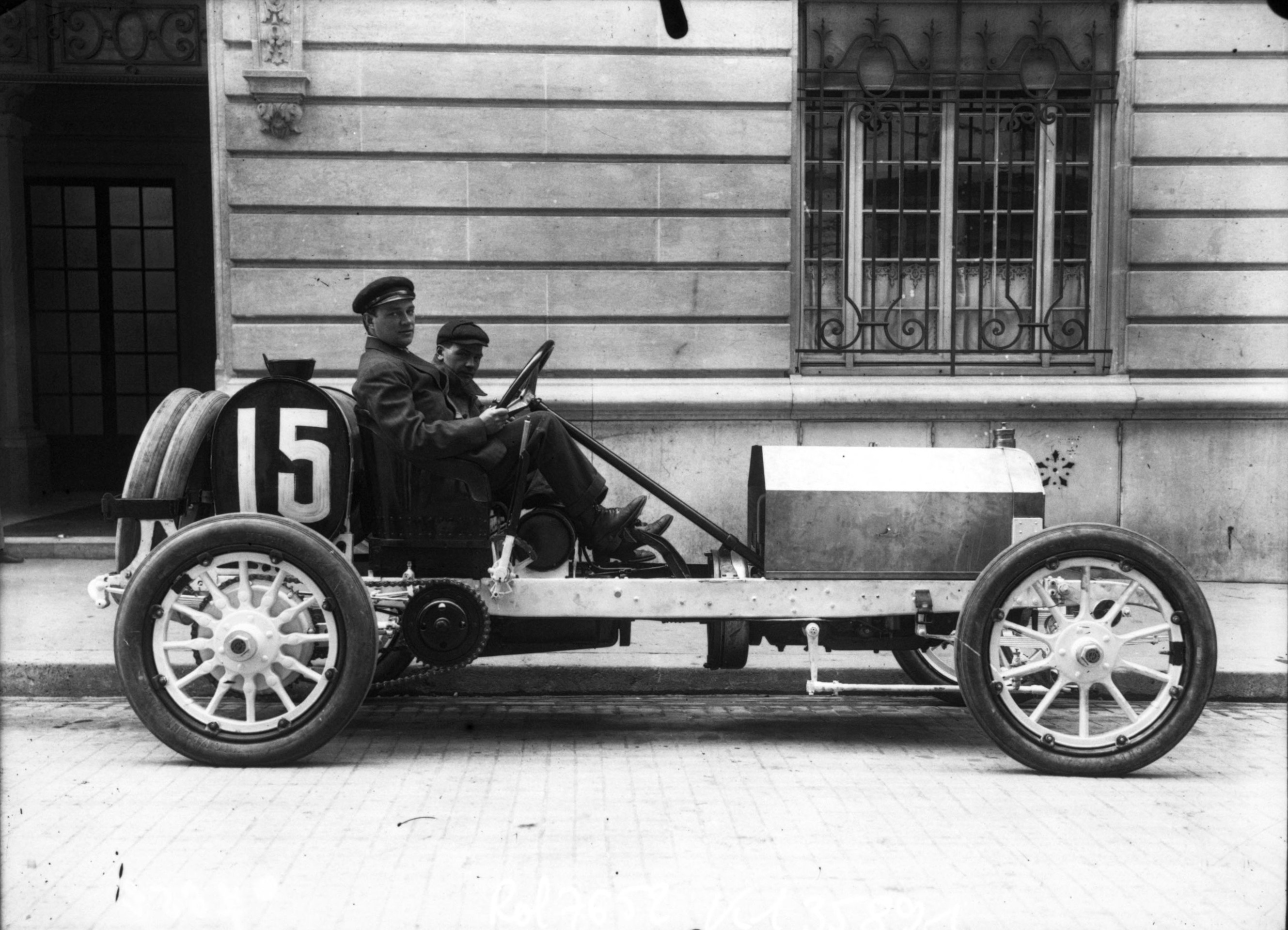 Lewis Strang in his Thomas at the 1908 French Grand Prix at Dieppe.